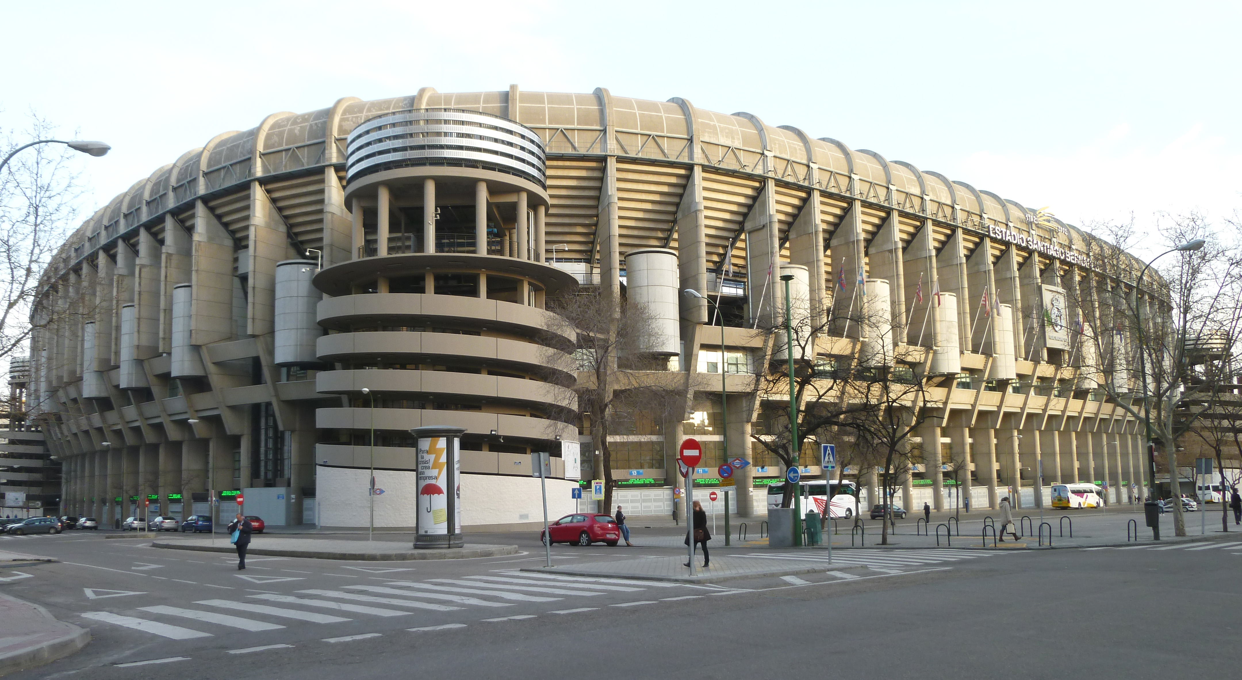 View of Santiago Bernabéu Stadium in Madrid (Spain) from the north-west angle.